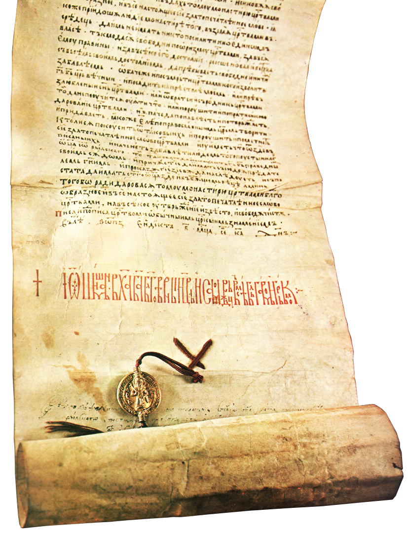 Rilla charter of tsar Ivan Shishman (1378)